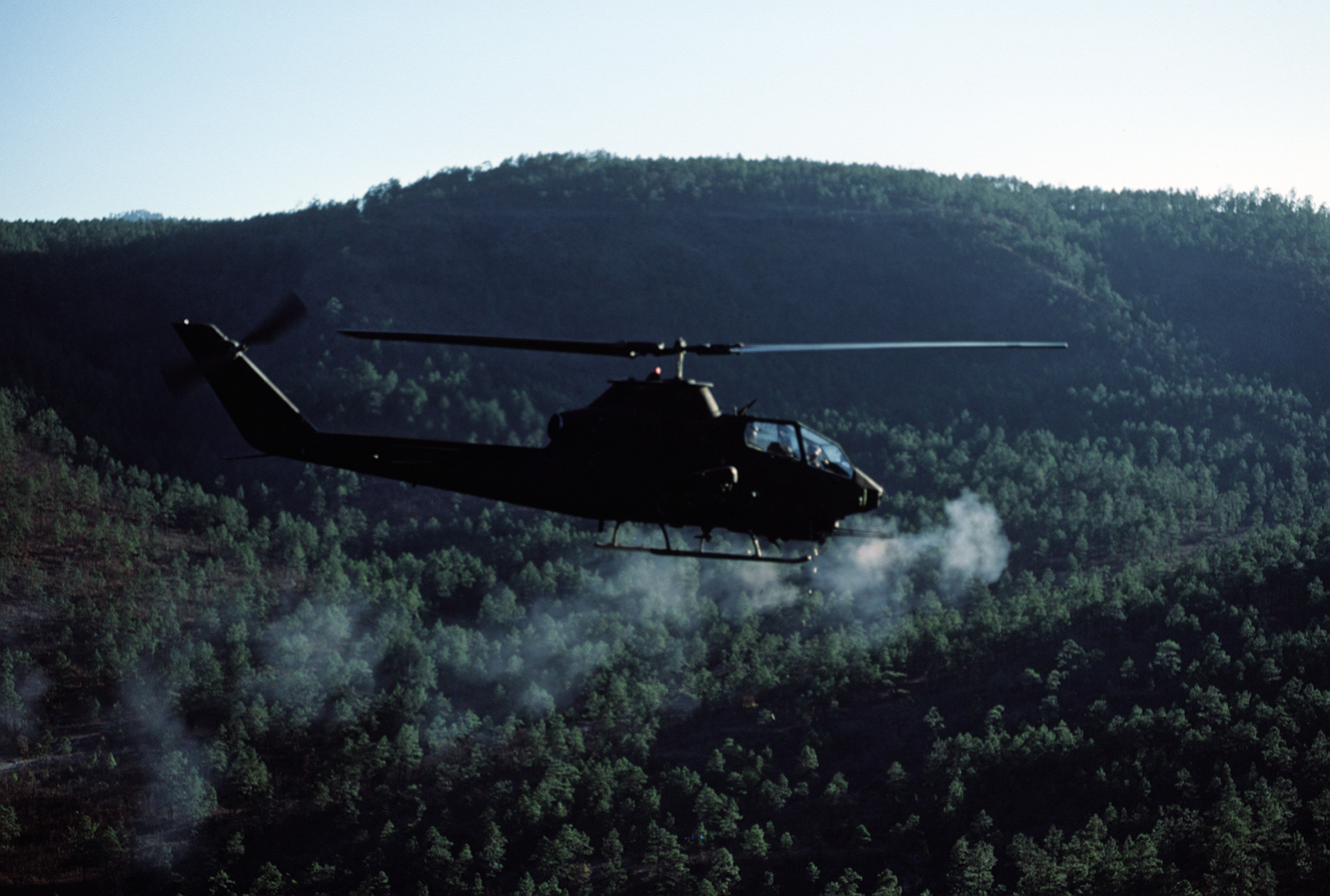 A U.S. Army Bell AH-1S Cobra helicopter from the 1st Battalion, 17th Air Cavalry Brigade, firing its 20 mm cannon over the Honduran artillery range at Camp Del Balomple during a mobilization of US exercise Task Force "Dragon/Golden Pheasant" in 1988. The task force, consisting of both the 82nd Airborne Division, and the 7th Light Infantry Division, was deployed by U.S. President Ronald Reagan to help discourage Nicaraguan forces from entering Honduras.